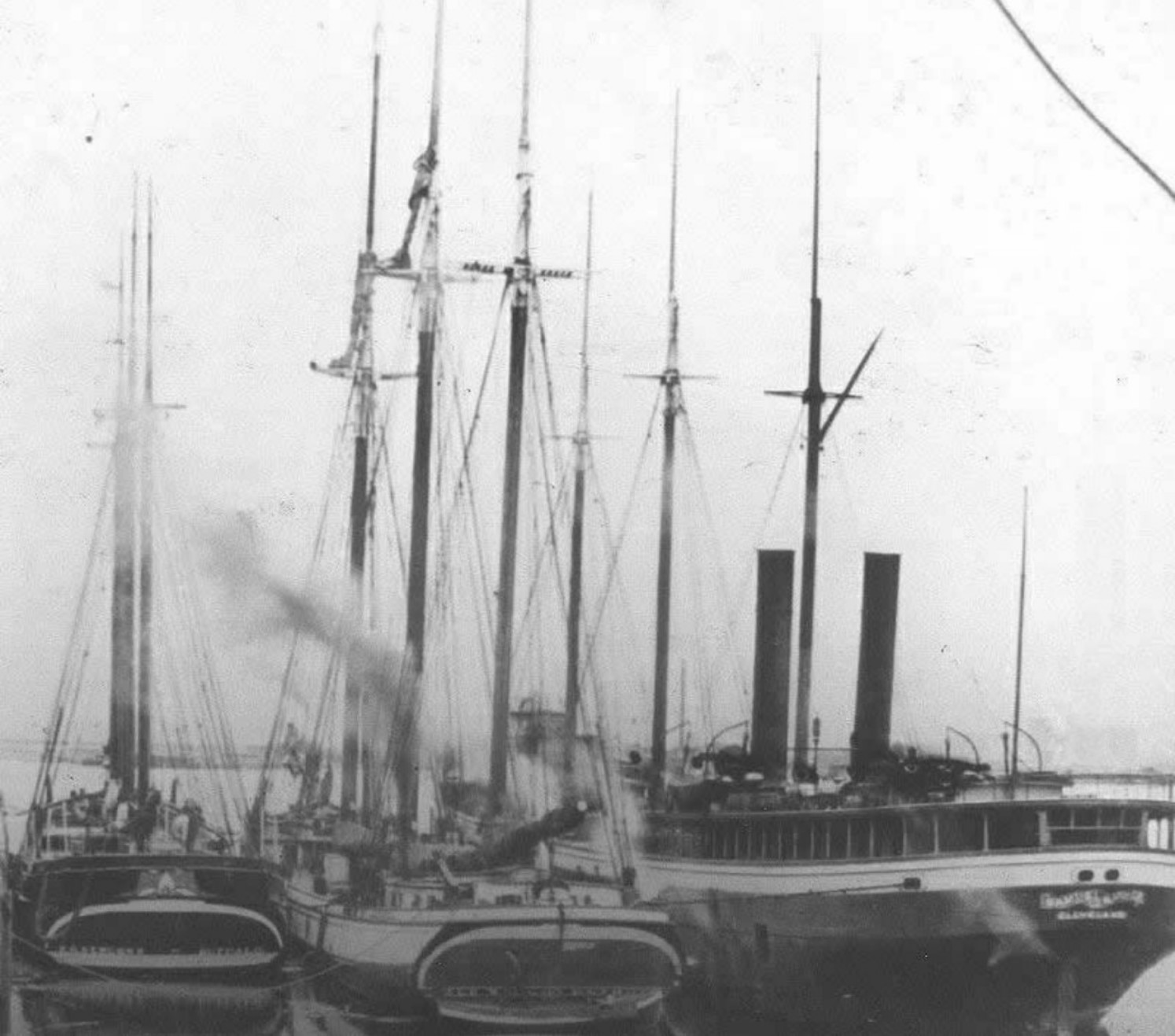 The steamer Samuel Mather before she sank